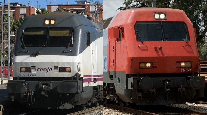 Comparison between the cabs of the portuguese 5600 series and the spanish 252 series locomotives.